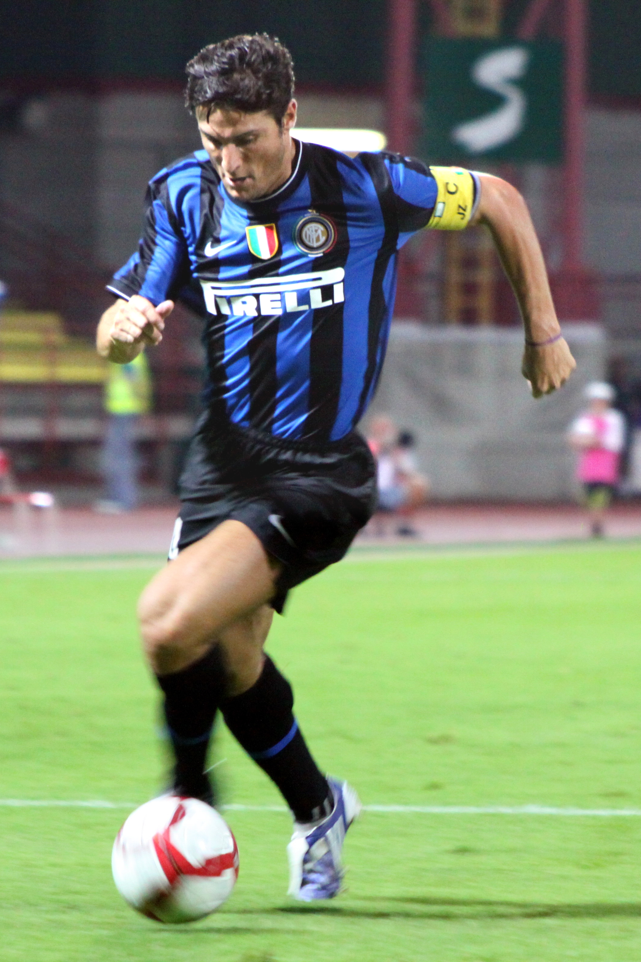 Javier Zanetti - F.C. Internazionale Milano